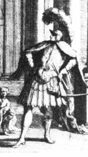 Caricature of Gaetano Berenstadt, castrato opera singer